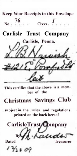 Landis Christmas Saving Club coupon